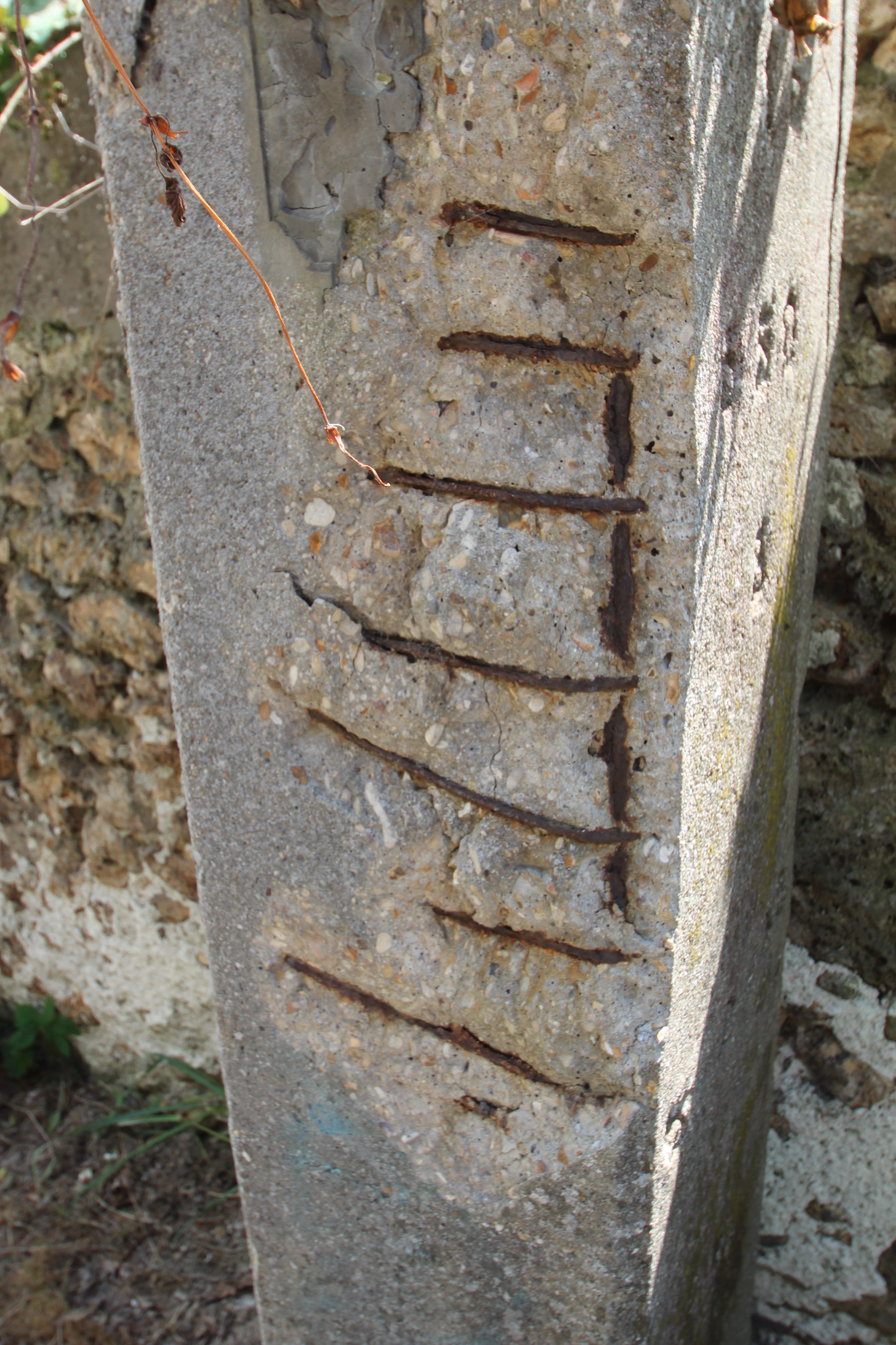 Paris street in Saint-Rémy-lès-Chevreuse, France. Object location48° 42′ 22.68″ N, 2° 05′ 15″ E This picture as been uploaded as part of L'Été des régions 2016.